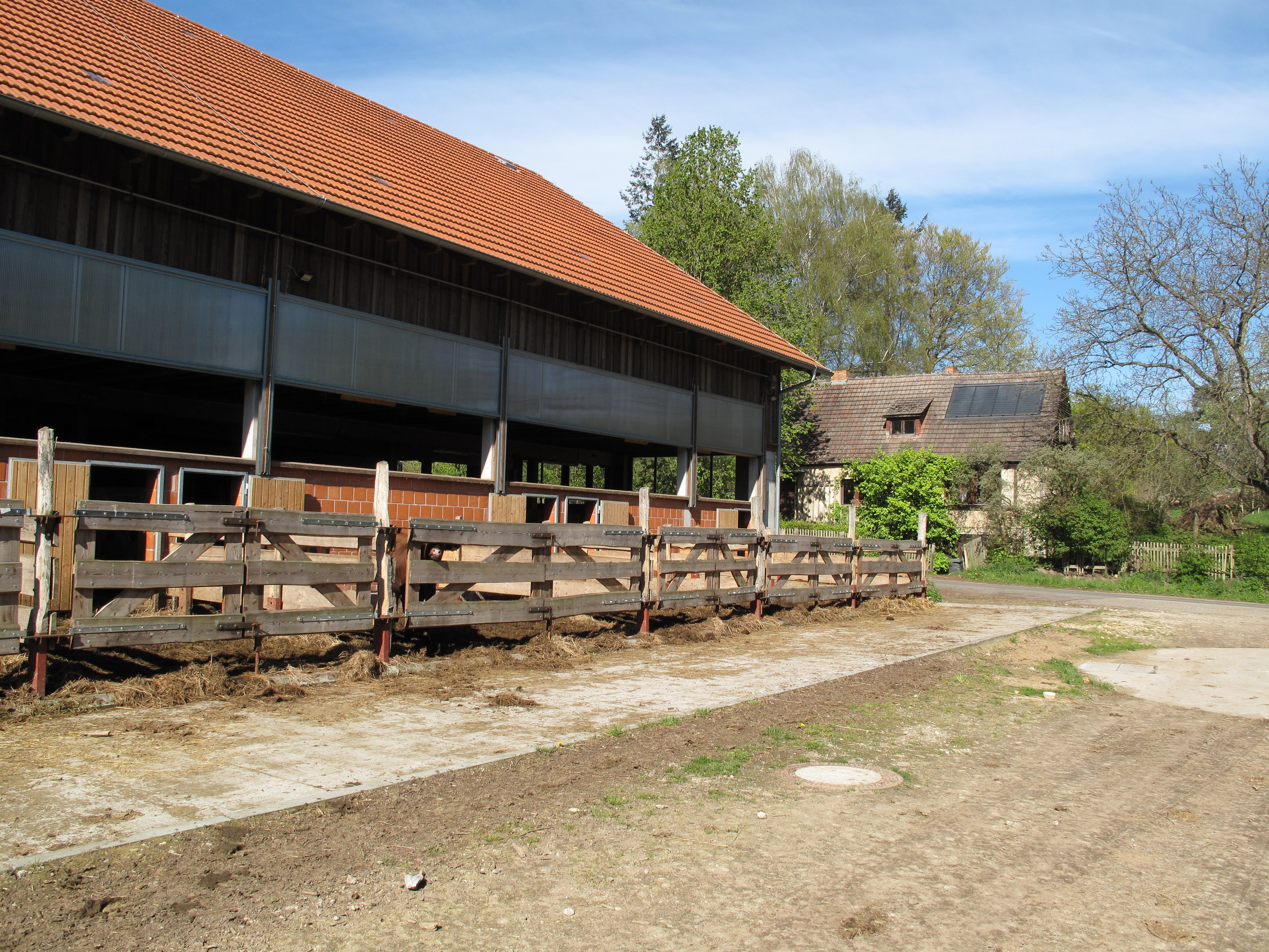 New cowshed (finished in 2011) of the „Hof Marienhöhe“ in April 2014. Marienhöhe is a part (settlement, estate; german: Wohnplatz) and organic farm of Bad Saarow, District Oder-Spree, Brandenburg, Germany. The place was established in 1880 as folwark of the manor Saarow. Since 1928 the „Hof Marienhöhe“ works on the biodynamic agriculture-method (Demeter international) and is considered to be the oldest farm working with this method in Germany.